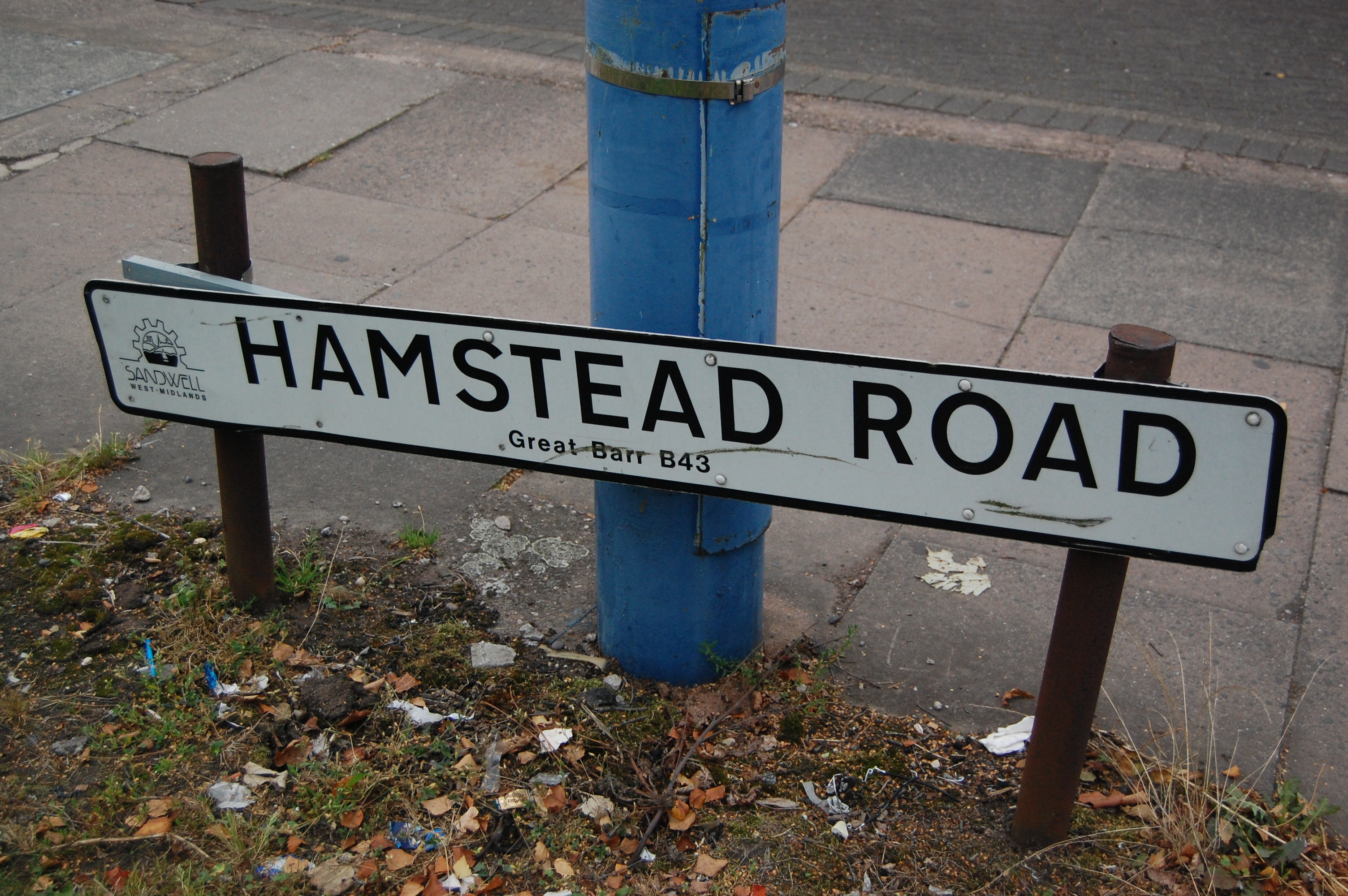 Vandalised "Hamstead Road" street name sign in the Great Barr district of Sandwell, England.